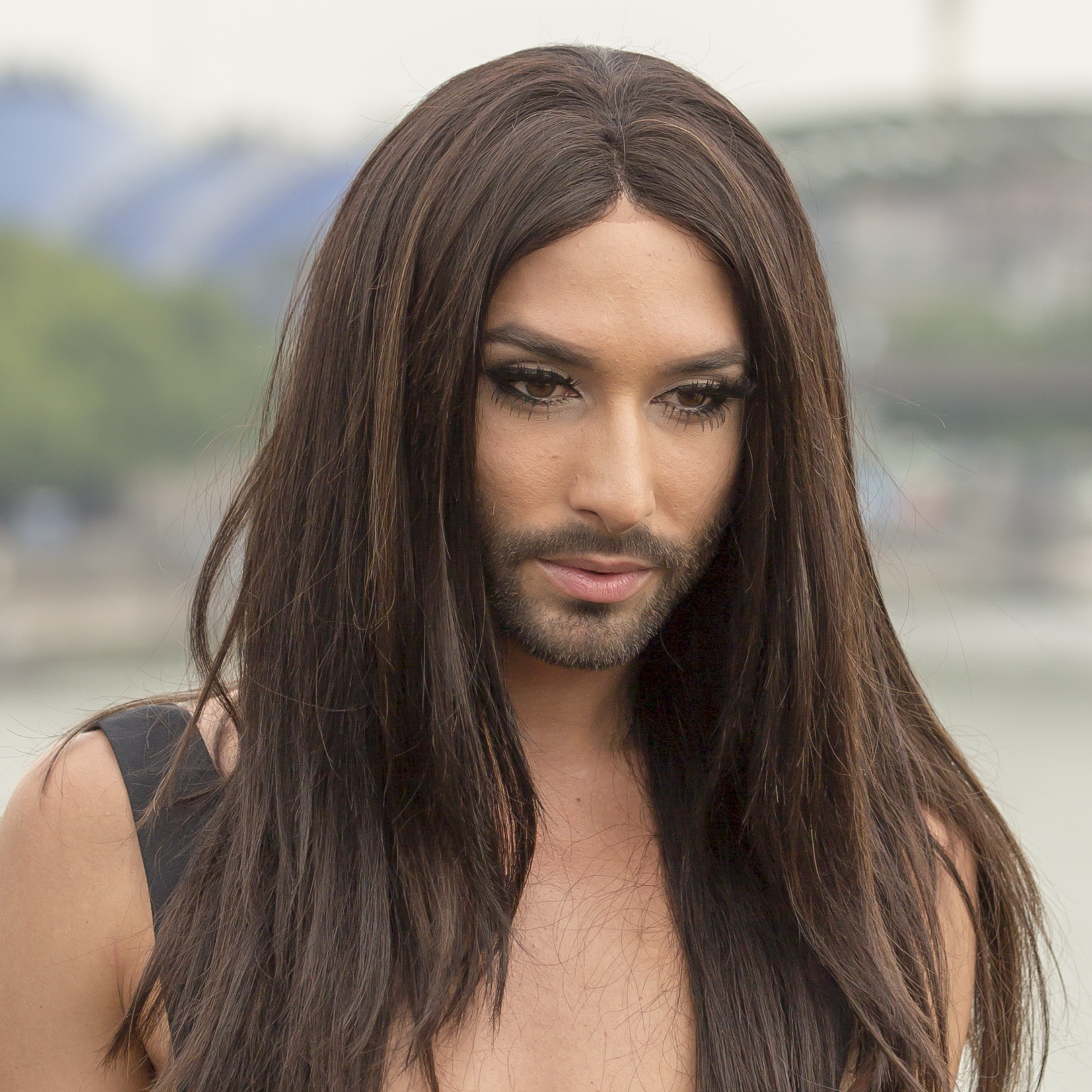 Cologne, Germany: Conchita Wurst at Cologne Pride Parade 2015